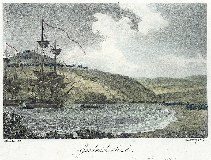 French troops surrendering to British Forces at Goodwick Sands, following the invasion of Fishguard